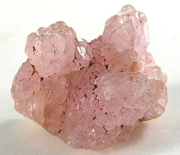 Quartz (Var.: Rose Quartz) Locality: Pitorra claim, Laranjeiras, Galiléia, Doce valley, Minas Gerais, Southeast Region, Brazil (Locality at ) Size: 3.4 x 2.9 x 2.6 cm. A Brazilian cluster of the most prized variety of quartz, consisting of intergrown compound crystals that have formed three "fingers". There is no matrix here - the whole specimen is rose quartz.